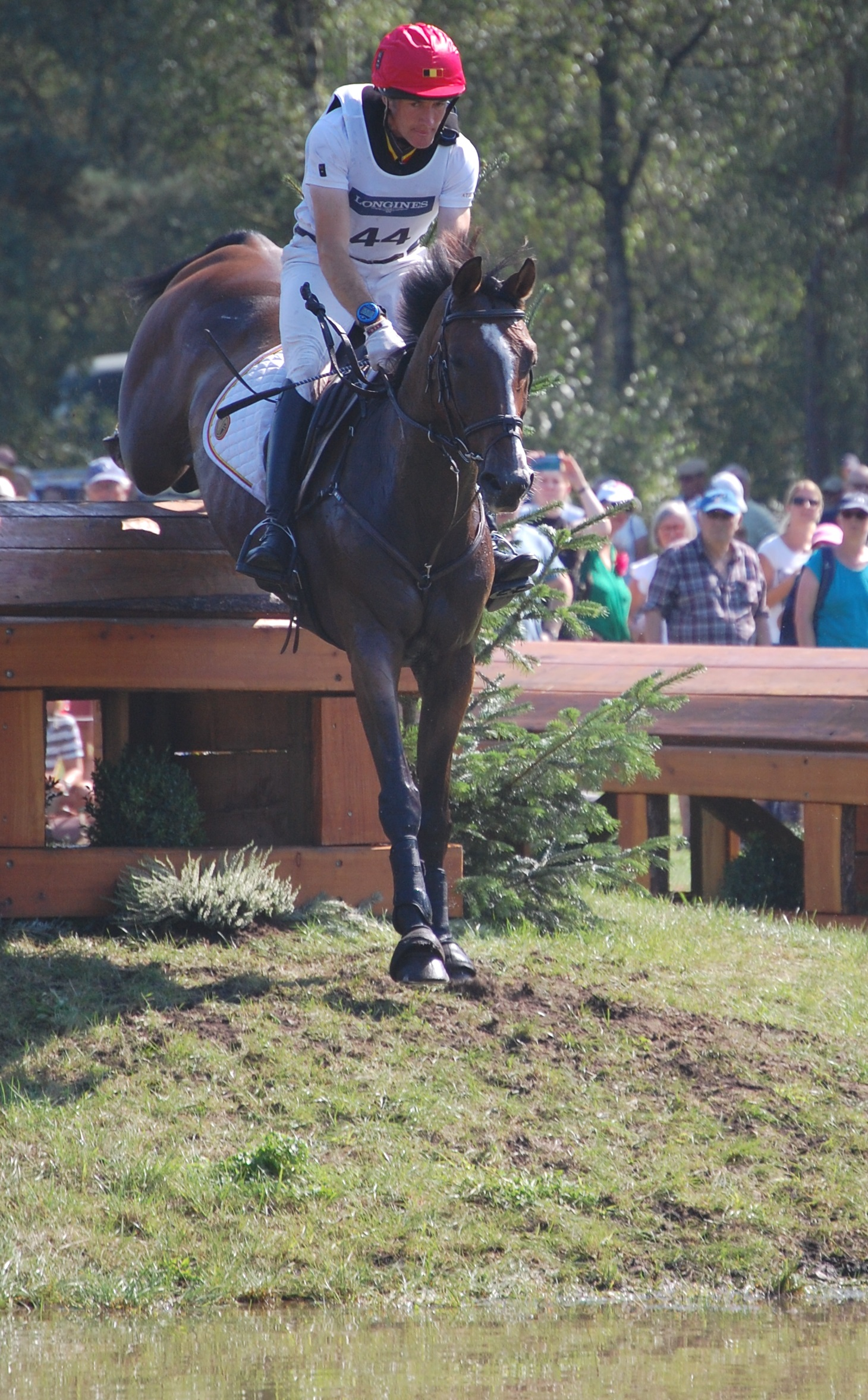 Belgian rider Constantin van Rijckevorsel and Beat It, fence 20a "boathouse" (cross-country phase), 2019 European Eventing Championship, Luhmühlen